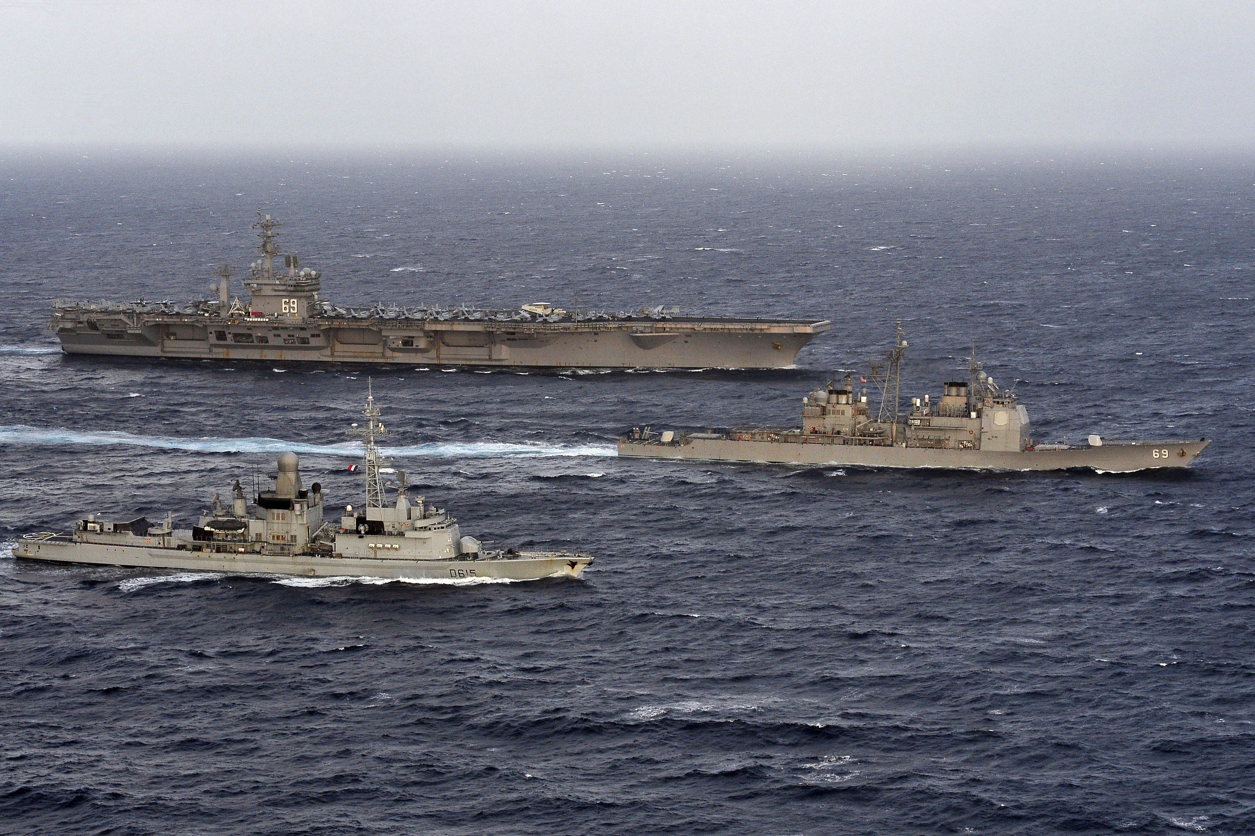 090312-N-5758H-046 MEDITERRANEAN SEA (March 12, 2009) The aircraft carrier USS Dwight D. Eisenhower (CVN 69), top, the guided-missile cruiser USS Vicksburg (CG 69), center, and the French Navy destroyer Jean Bart (D615) transit the Mediterranean Sea. The Eisenhower Carrier Strike Group is underway for a scheduled deployment supporting the on-going rotation of forward-deployed forces to support maritime security operations and operate in international waters across the globe. (U.S. Navy photo by Mass Communication Specialist Kenneth R. Hendrix/Released)